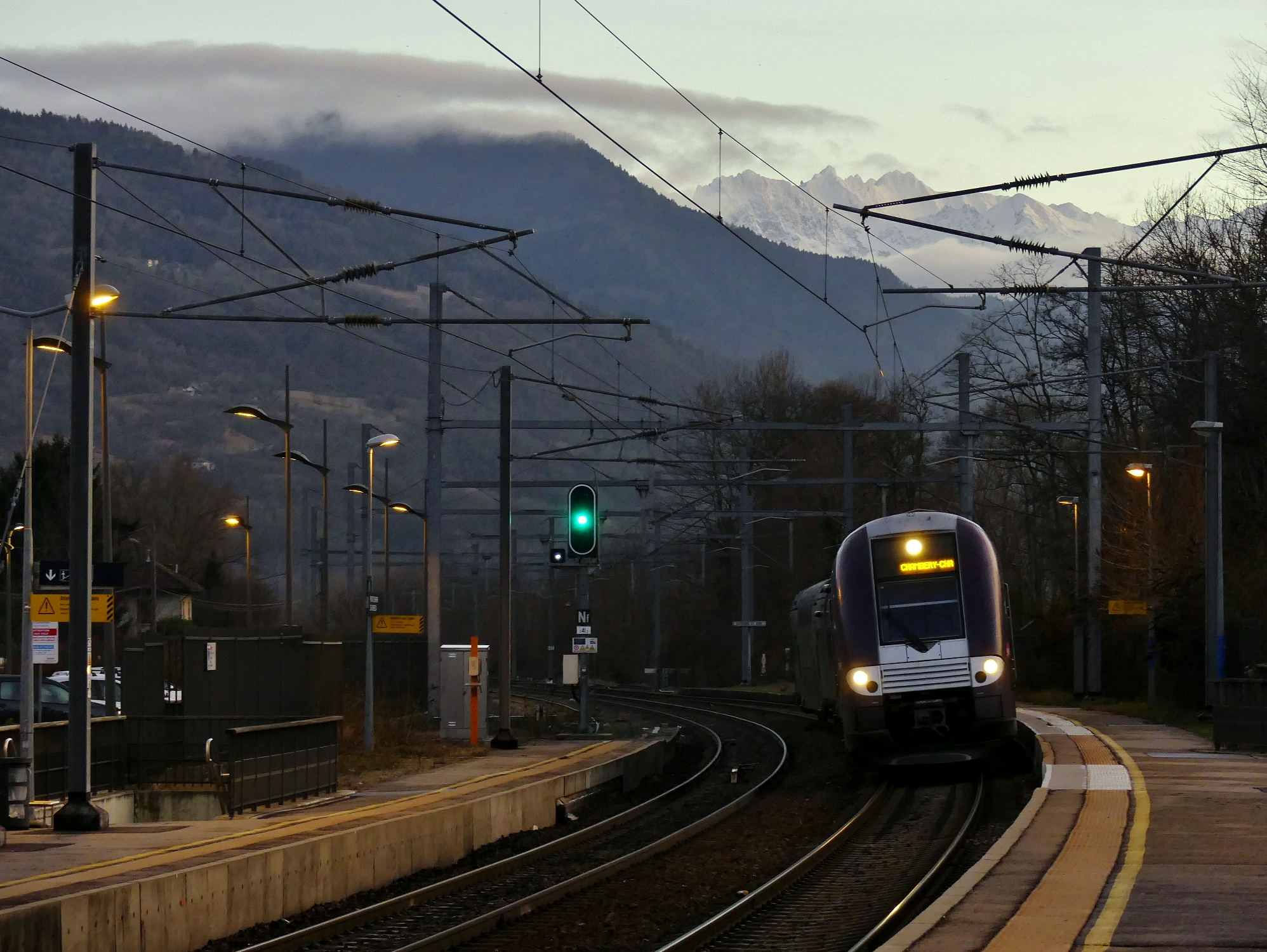 Sight, in the early evening, of a French regional train coming from Grenoble (Isère) and bound for Chambéry (Savoie), arriving at Pontcharra-sur-Bréda railway station, in Isère.